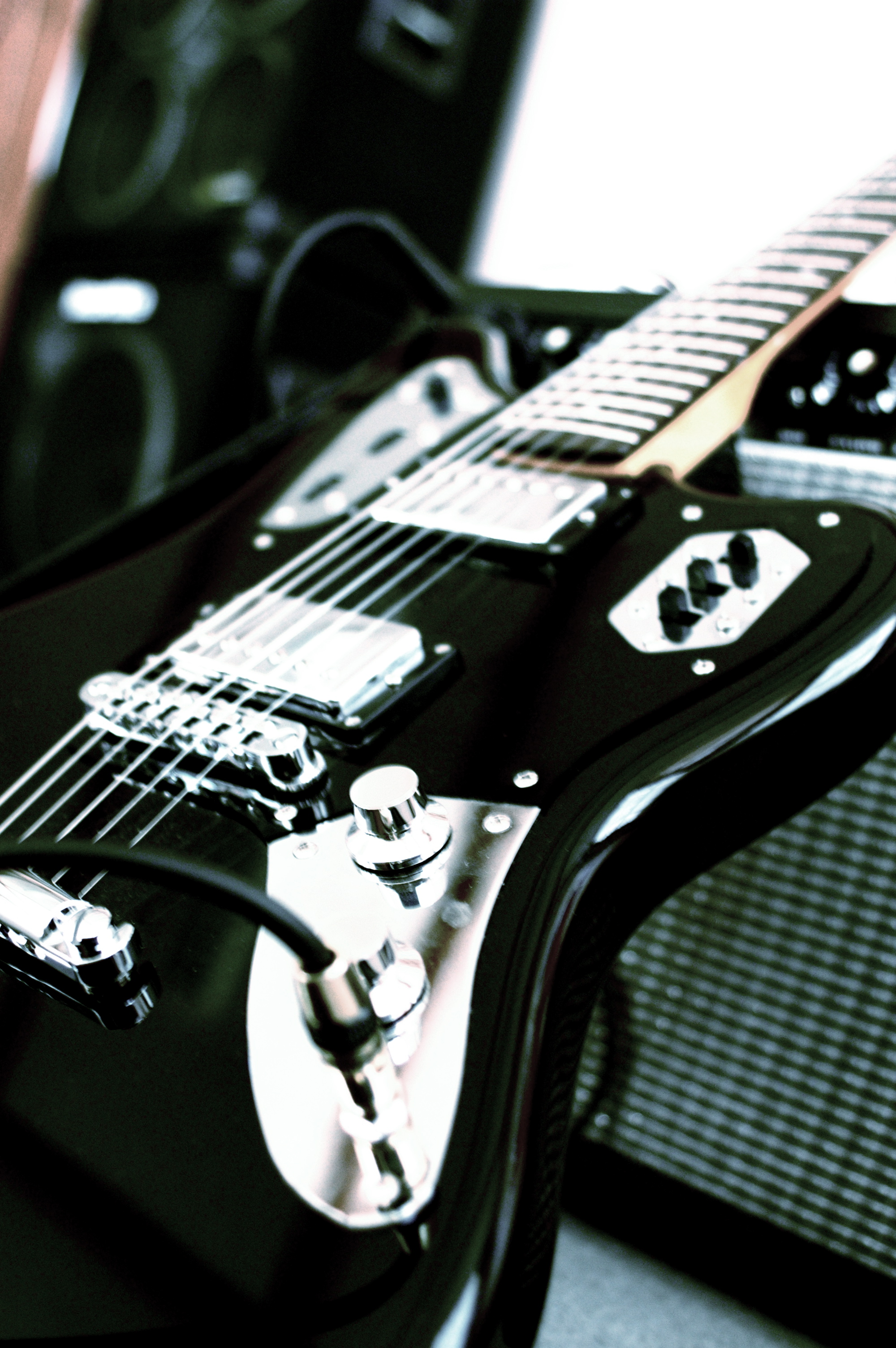 Fender Jaguar Special HH [1] Has the same body shape as the standard Jaguar, but is equipped with two low-output Fender designed Dragster humbucking pickups, a fixed adjusto-matic bridge (similar to a Gibson Tune-O-Matic), a 24" scale length, and chrome knobs. It is made in Japan.